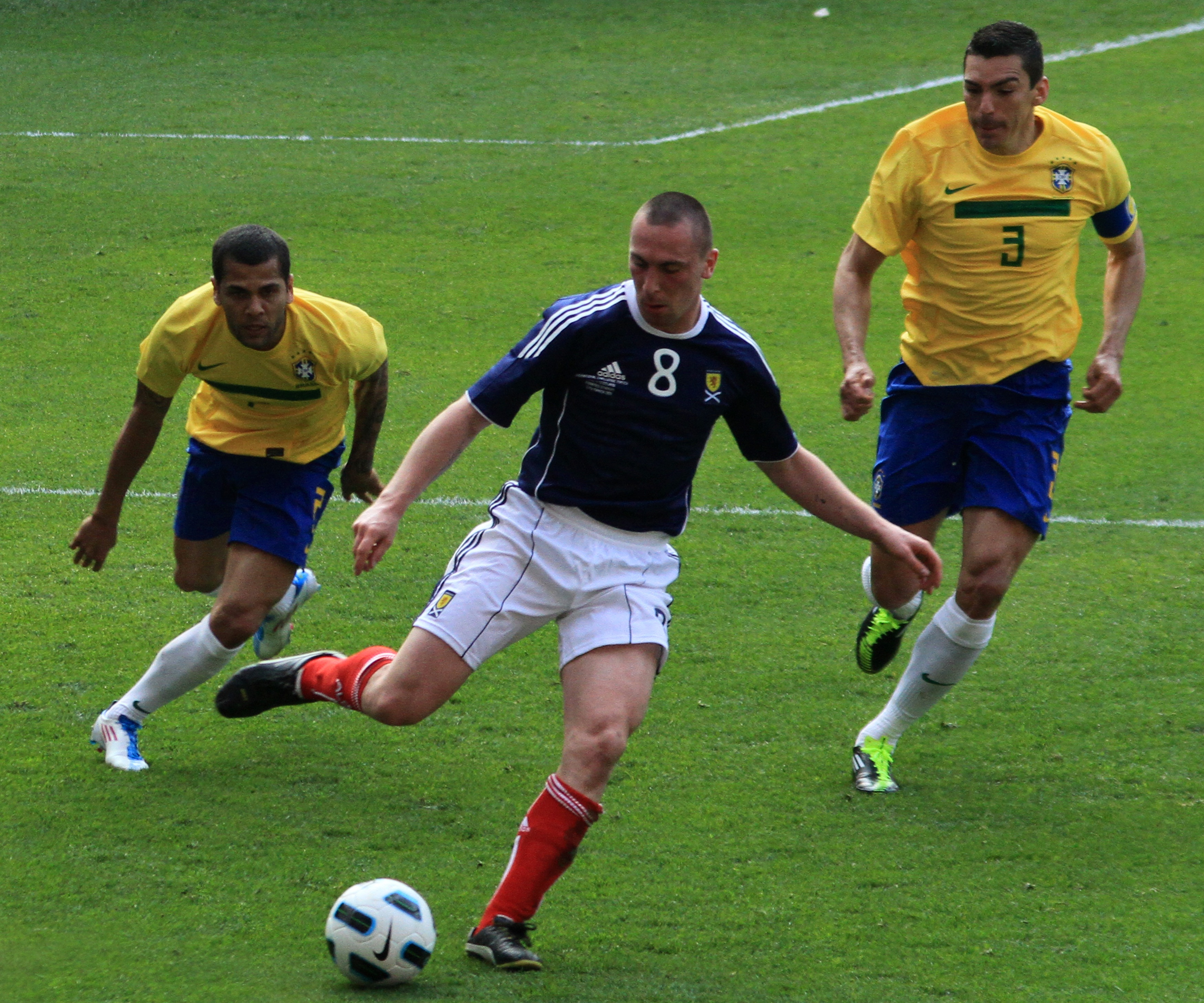 Scott Brown (centre) playing for the Scotland national football team against Brazil on 27 March 2011. Brazilian defenders Dani Alves (left) and Lucio (right) look on.